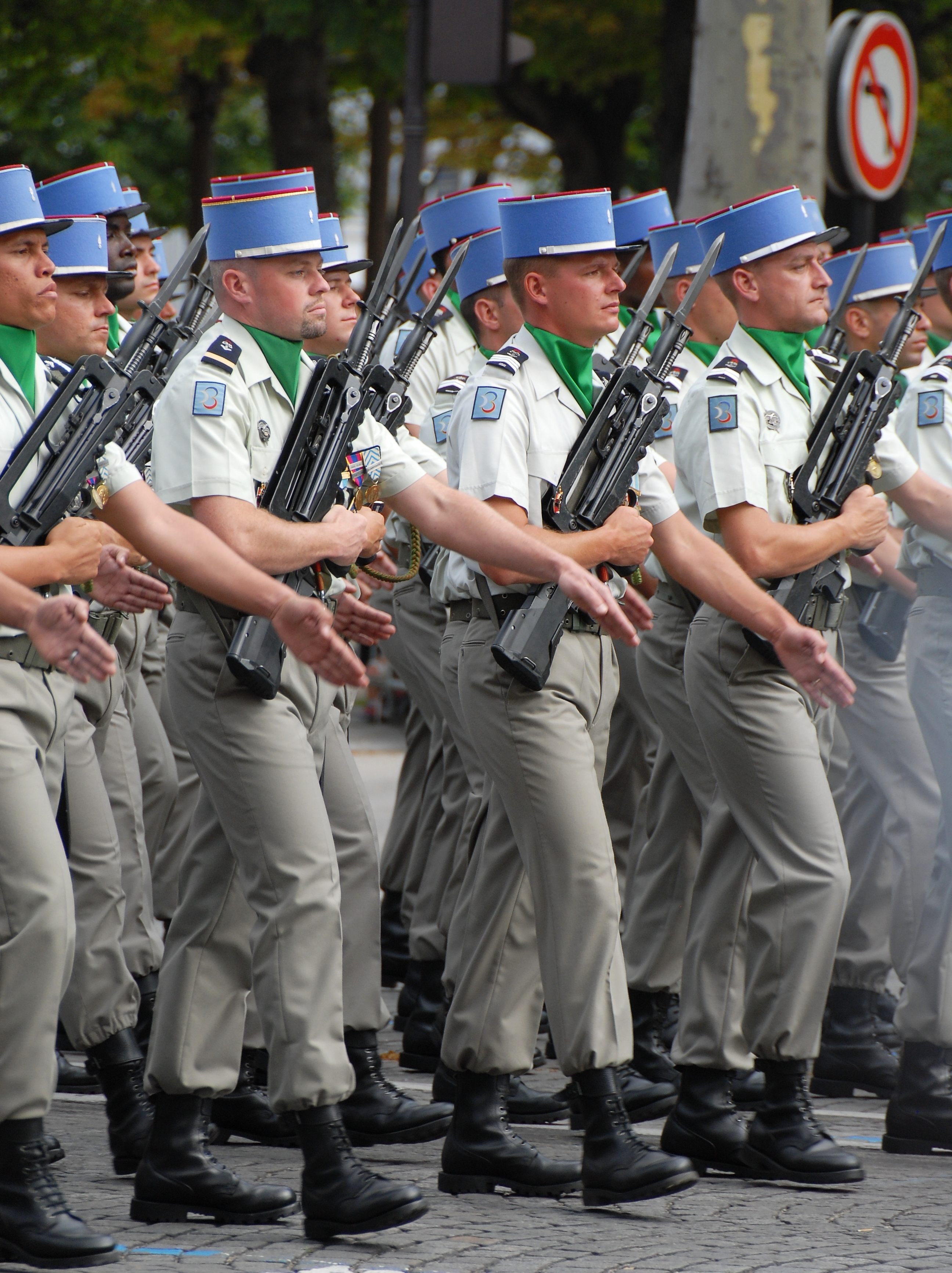 French 1st-11th Cuirassier Regiment during the Bastille Day 2007 military parade on the Champs-Élysées.